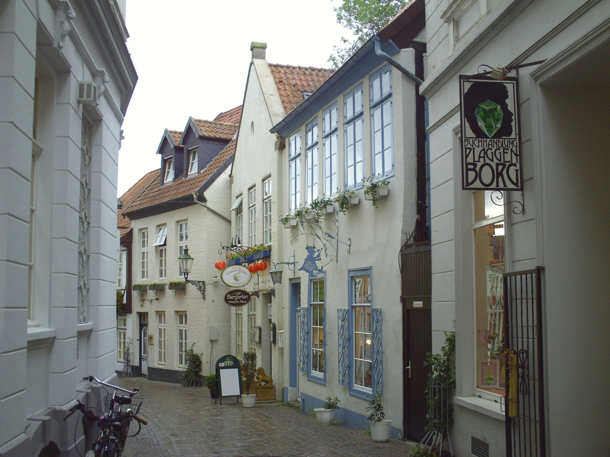 View of the Bergstraße in Oldenburg